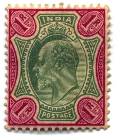 Scan of India 1-rupee stamp of 1902